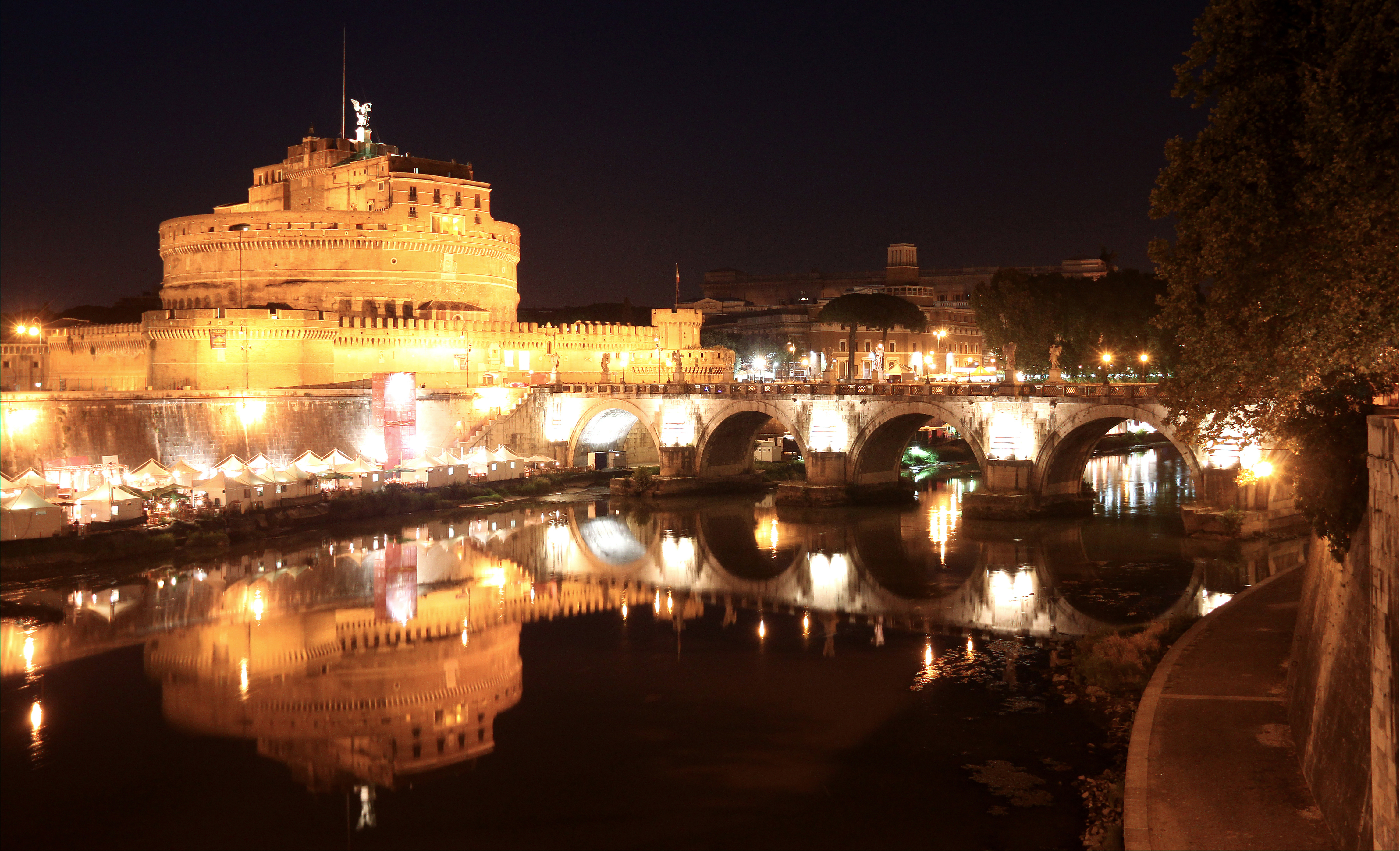 Castel Sant'Angelo and Ponte Sant'Angelo in Rome (Italy) by night.